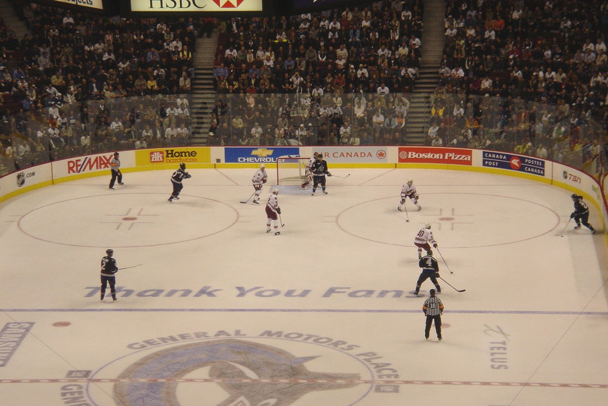 Vancouver Canucks vs. Phoenix Coyotes, Season Opener at GM Place, October 5th, 2005